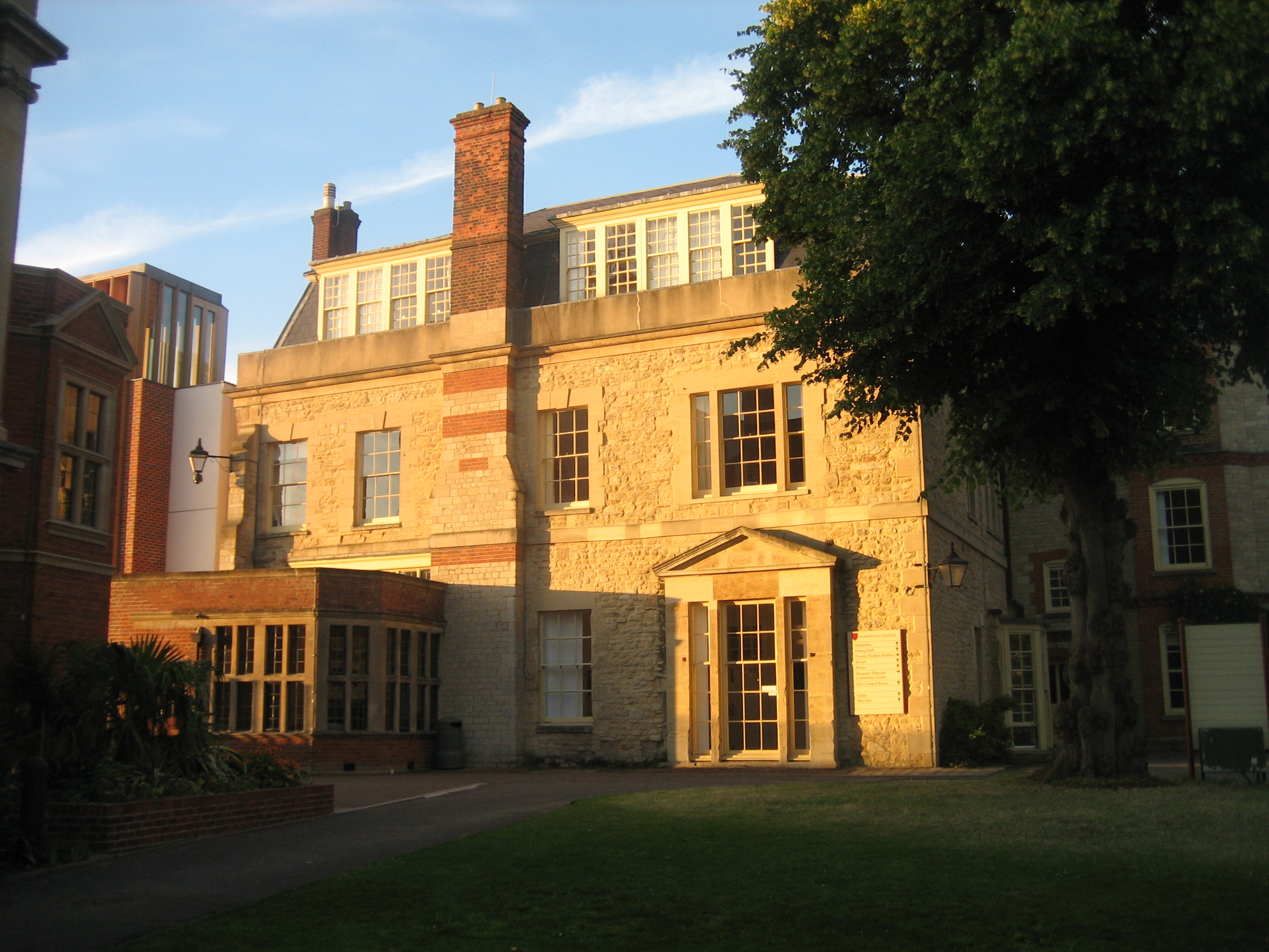 View of "House" building on the west side, facing the main quad.